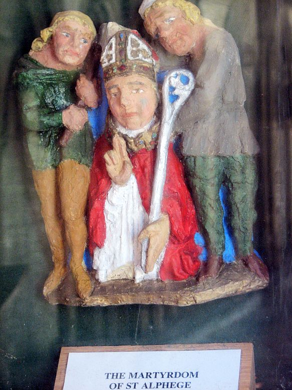 The painted carving of Saint Alphege in Canterbury Cathedral in Kent, England, United-Kingdom.